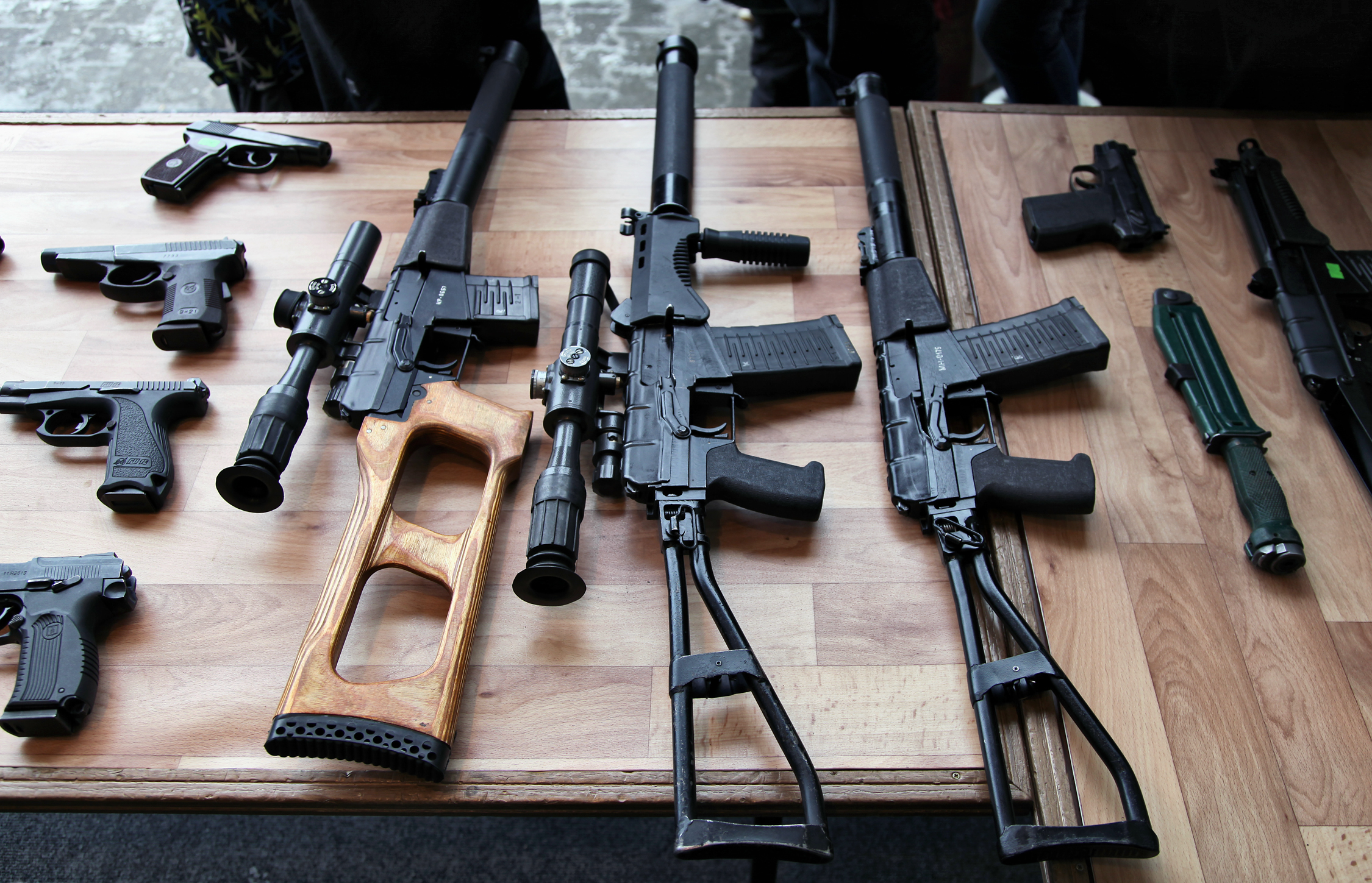 VSS Vintorez, SR-3M Vikhr and AS Val